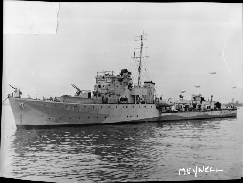 Photograph of British Hunt class destroyer HMS Meynell.